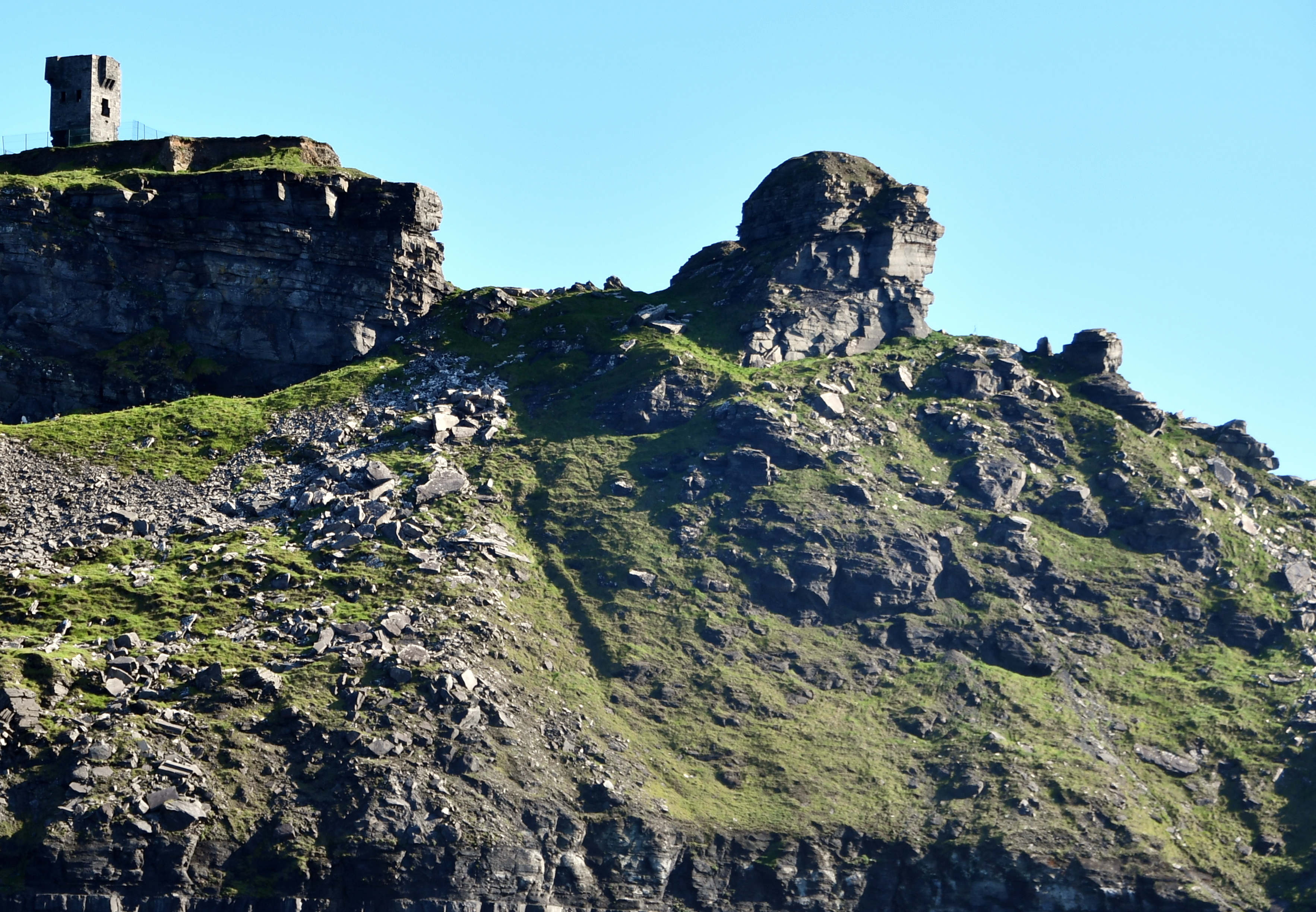 Hag's Head rock formation with face part clearly visible, as seen from the ocean surface.